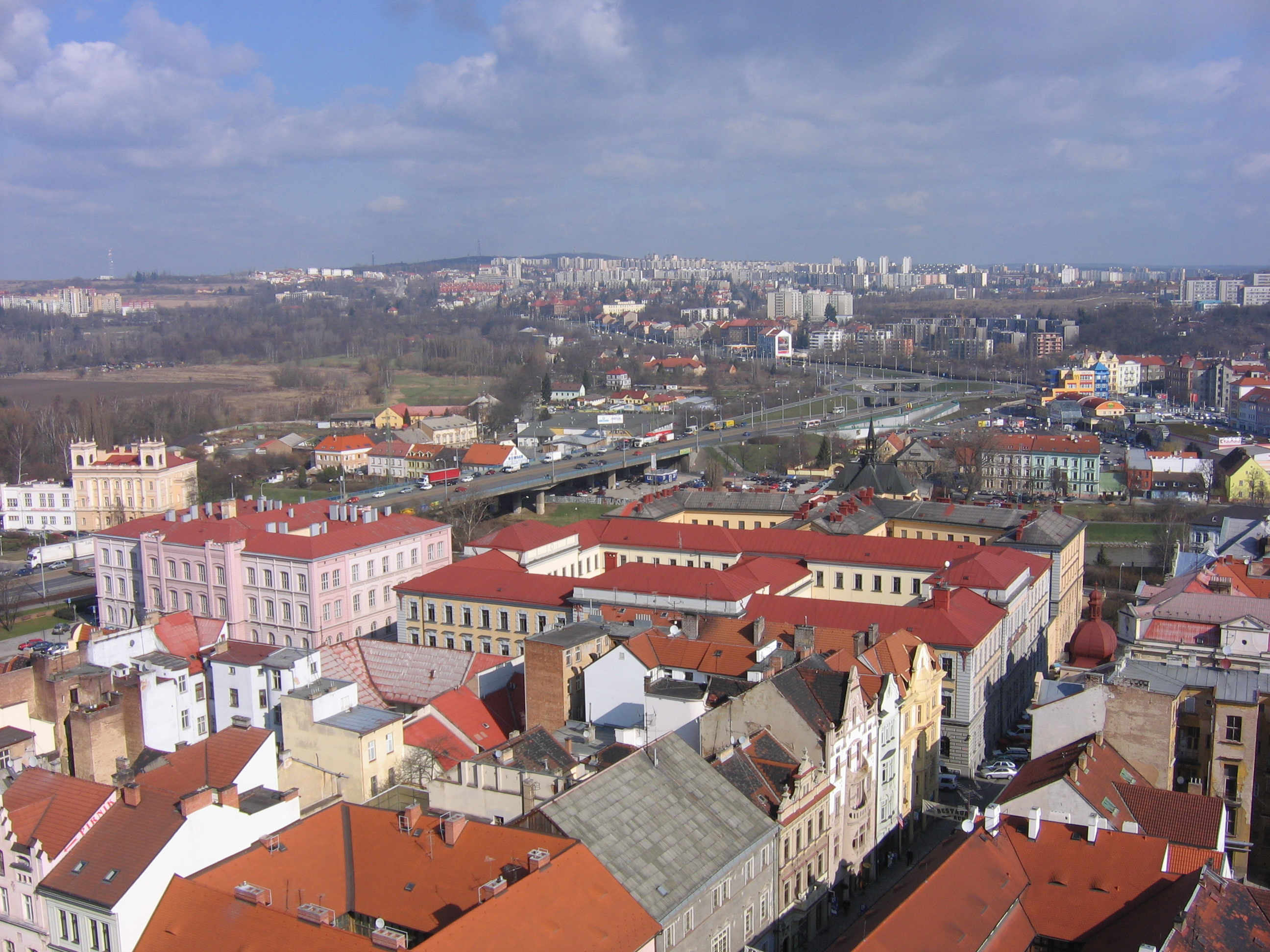 City of Plzeň, Czech Republic. Pilsen, Tschechien. View towards NW-NNW from the tower of the St. Bartholomew Church at the main square "Namesti Republiky".